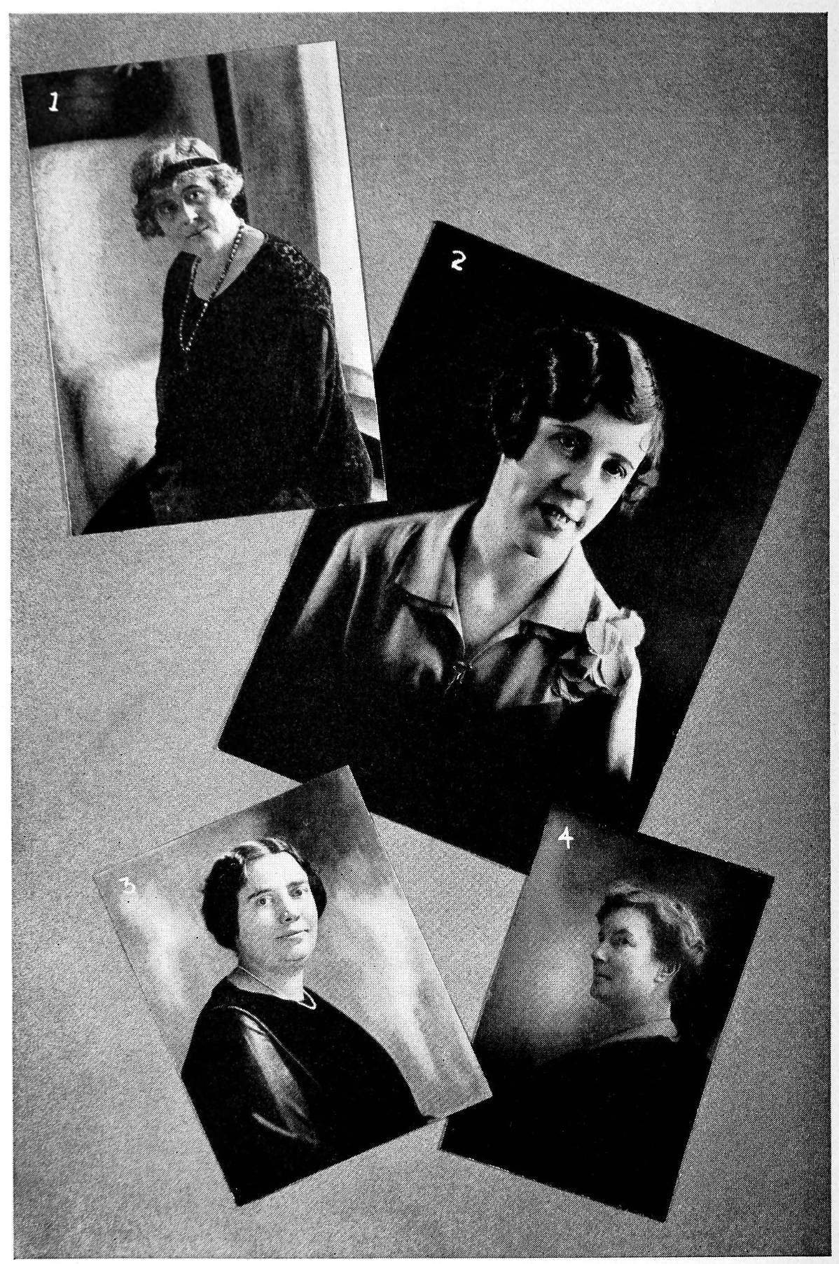 Women of the West; a series of biographical sketches of living eminent women in the eleven western states of the United States of America by Binheim, Max; Elvin, Charles A Publication date 1928 Topics Women Publisher Los Angeles, Calif., Publishers Press Collection uconn_libraries; americana Digitizing sponsor LYRASIS Members and Sloan Foundation Contributor University of Connecticut Libraries Language English 223 p. bports. c24 cm. Bookplateleaf 0003 Call number F595 .B59 Camera Canon EOS 5D Mark II Identifier womenofwestserie00binh Identifier-ark ark:/13960/t22c0sd8h Lccn 28021005 Ocr ABBYY FineReader 8.0 Page-progression lr Pages 284 Possible copyright status Copyright either not claimed or not renewed. Item is in the public domain. Ppi 500 Scandate 20130807152456 Scanner Scanningcenter boston Full catalog record MARCXML